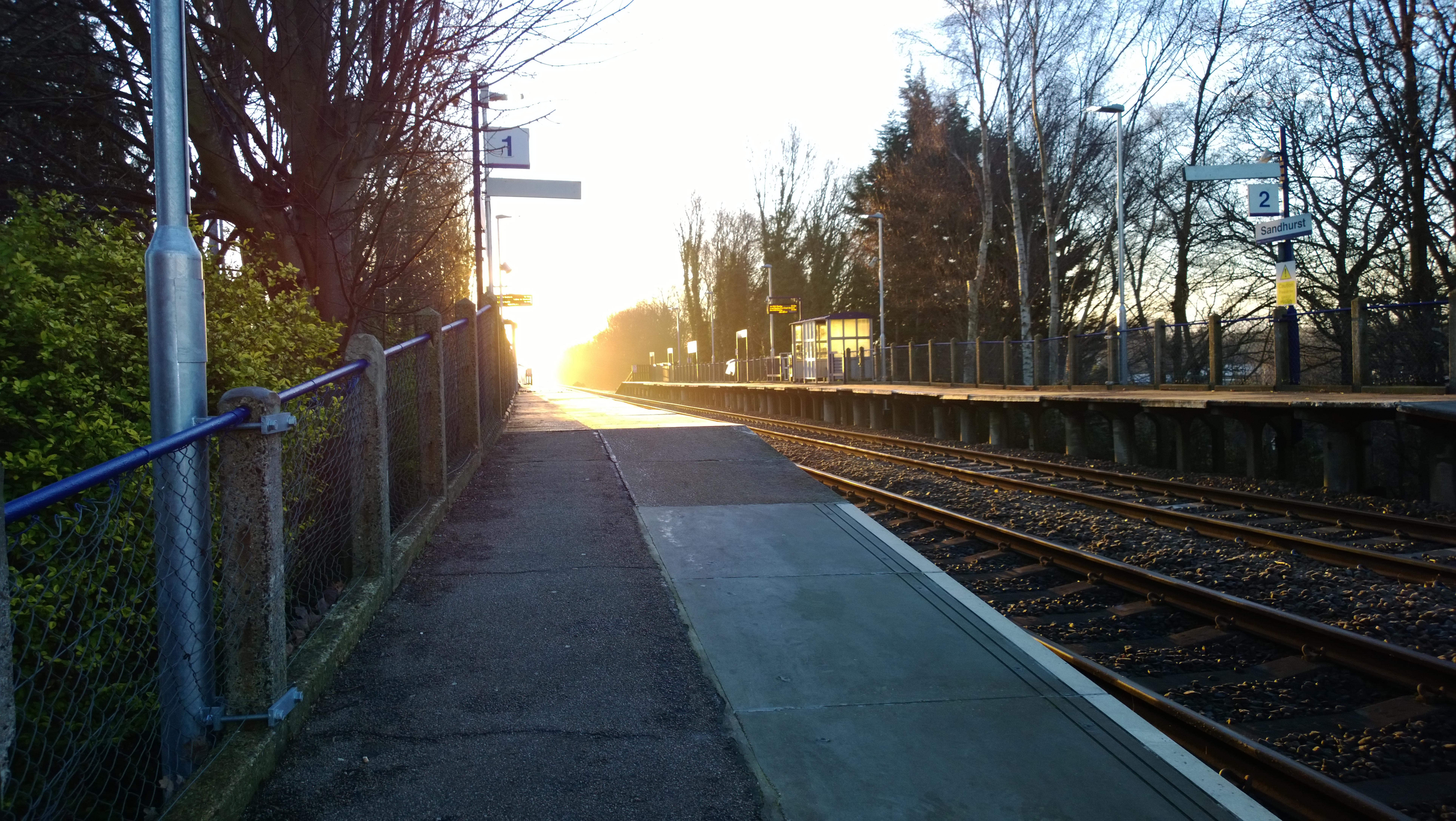 Sandhurst Railway Station, Berkshire, UK, as viewed from the ramp to platform 1.